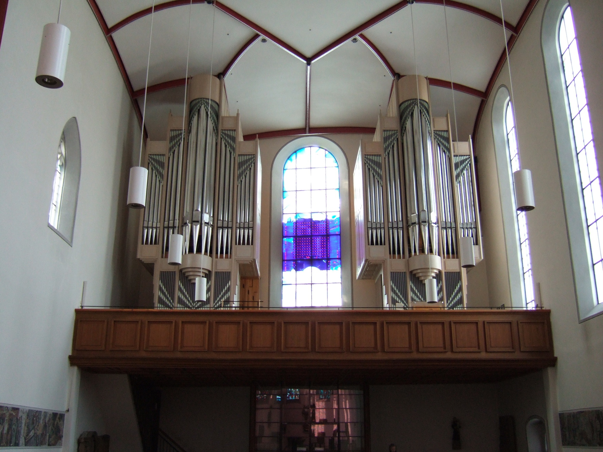 Gallery with Organ in the Minster "Deutsch-Ordens-Münster" of Heilbronn - Germany